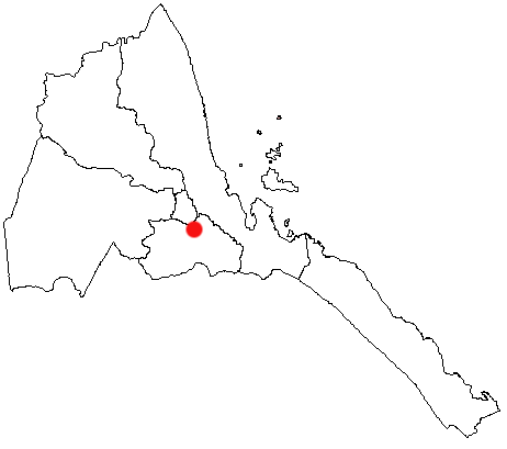 Dekemhare, Eritrea Location Map; created with the GIMP. Made by Acntx.